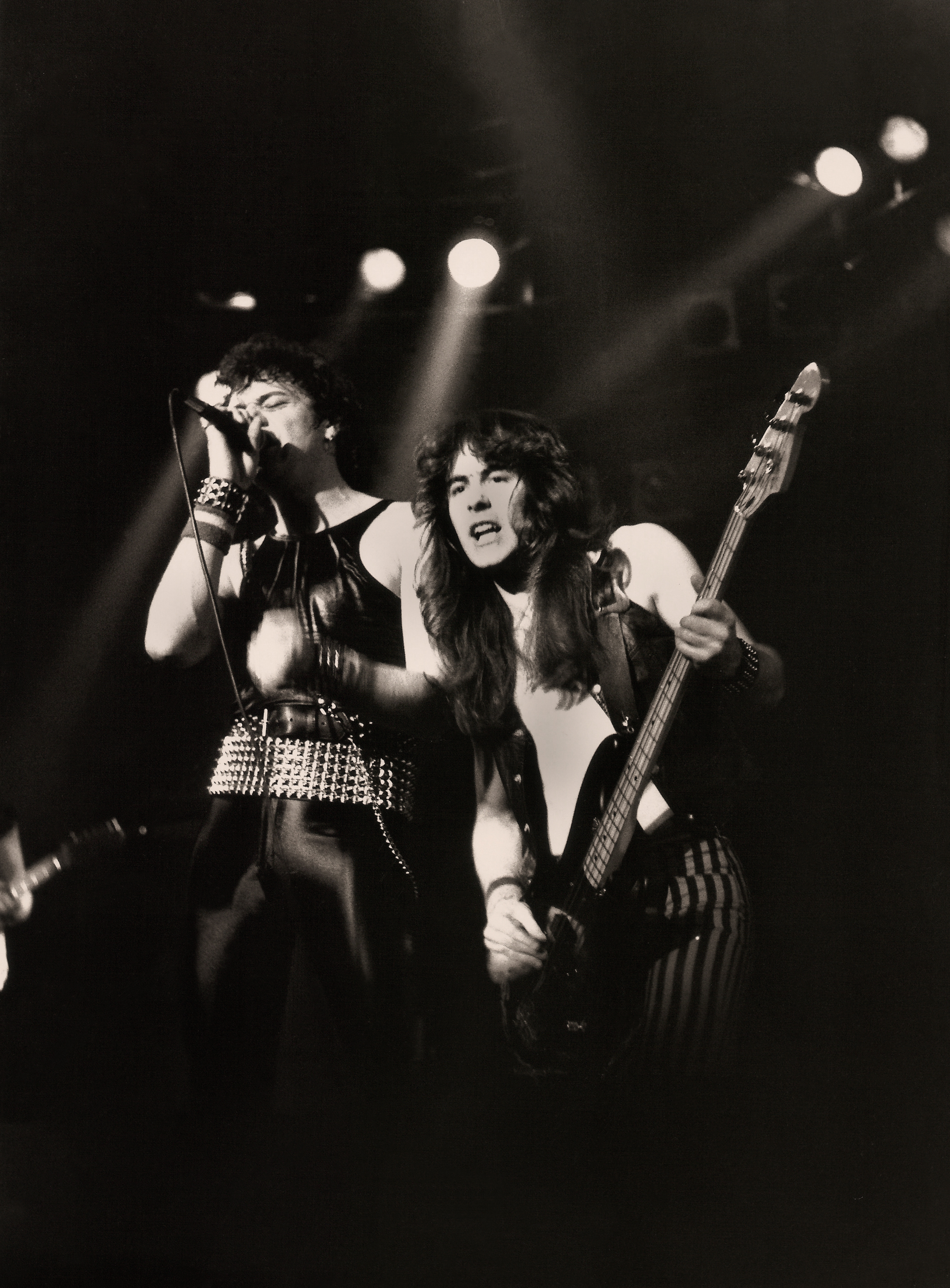 Steve Harris of Iron Maiden playing live with original singer Paul Di'Anno.